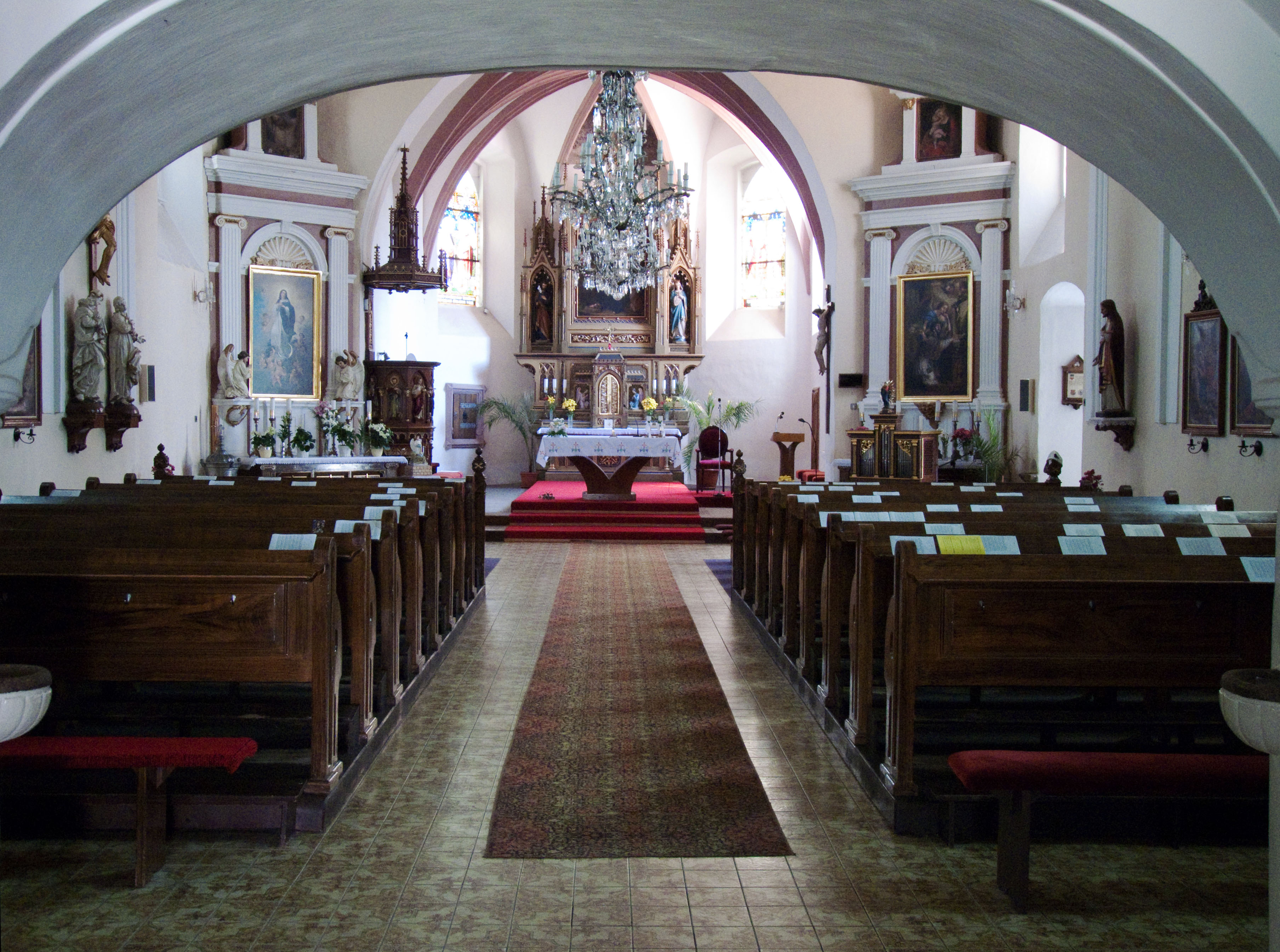 Saint Giles Church interior in Vlašim, Benešov district, Czech Republic from 1523; view towards the altar